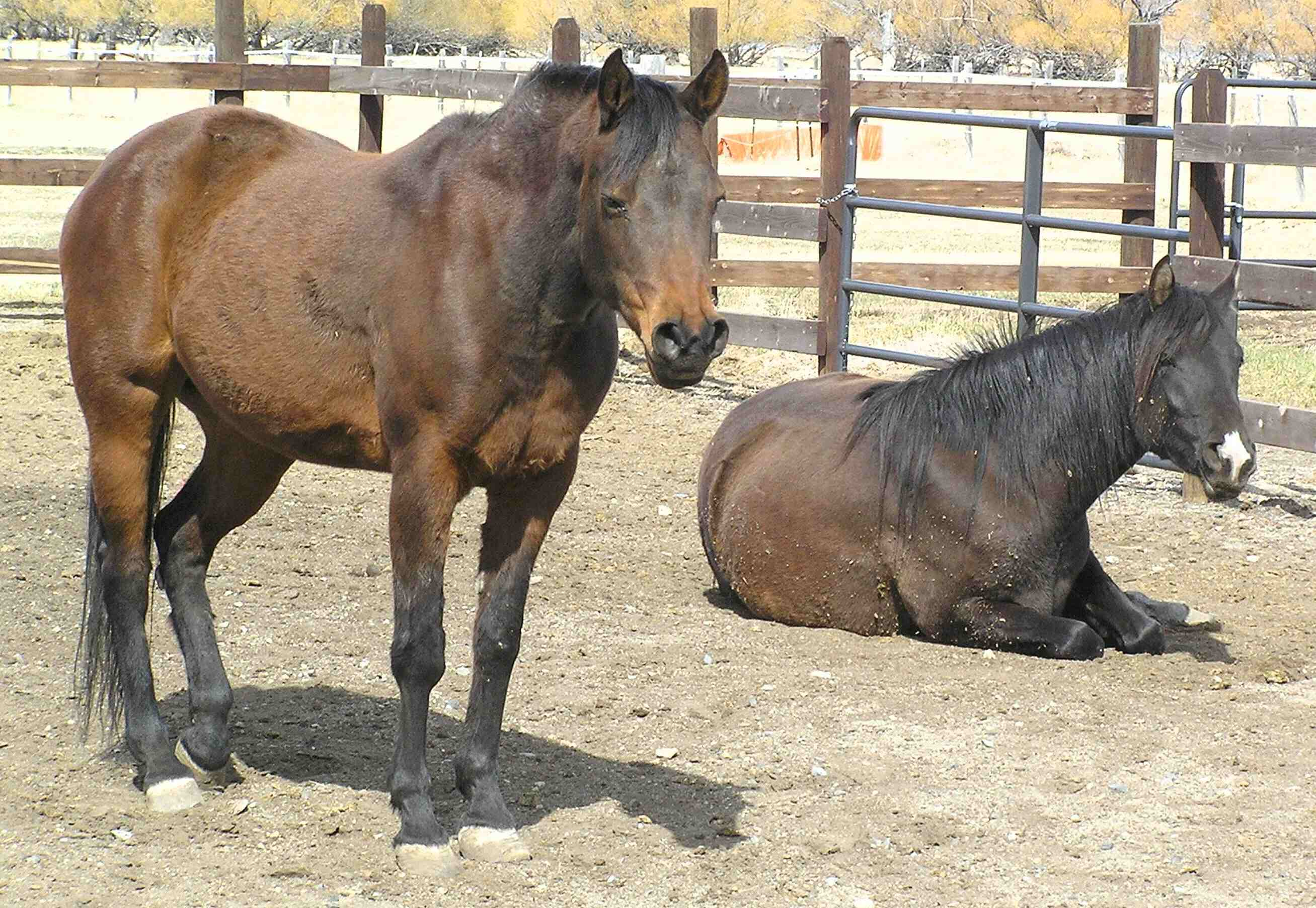 Horses can sleep standing up or laying down; usually if horses in a herd lay down, some will remain standing to "guard" the rest of the herd